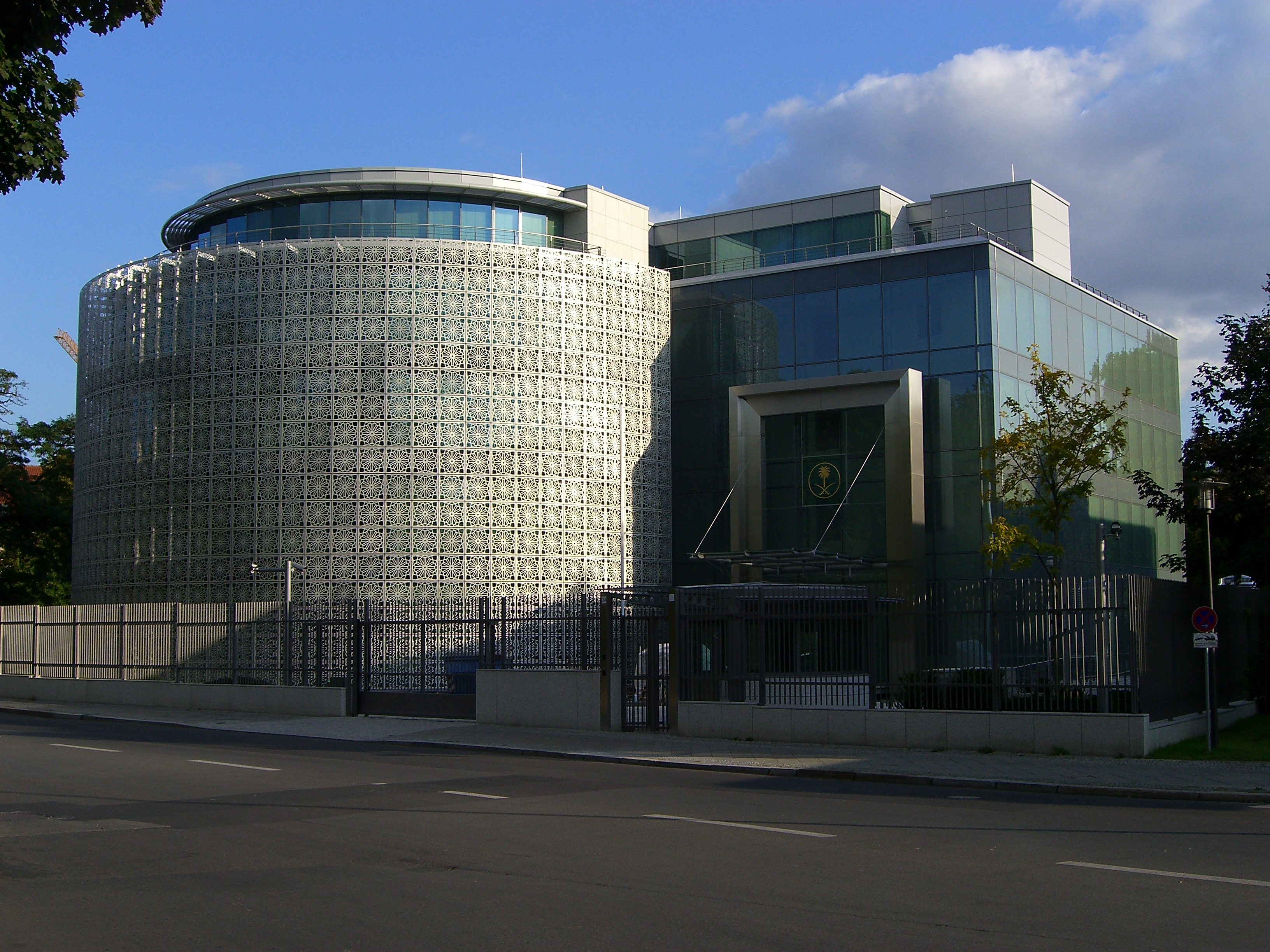 Embassy of Saudi Arabia in Berlin (at Tiergartenstrasse).